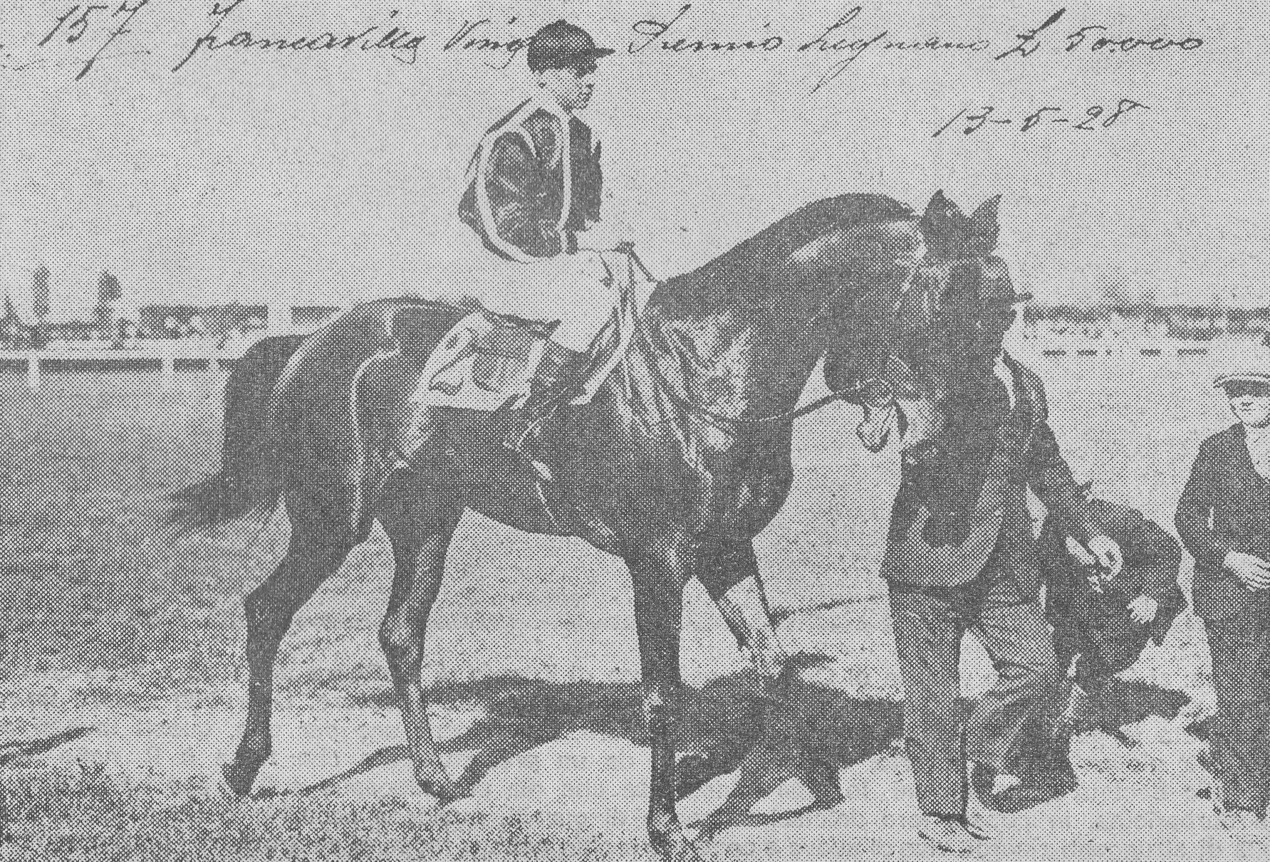 The italian rider Enrico Camici.